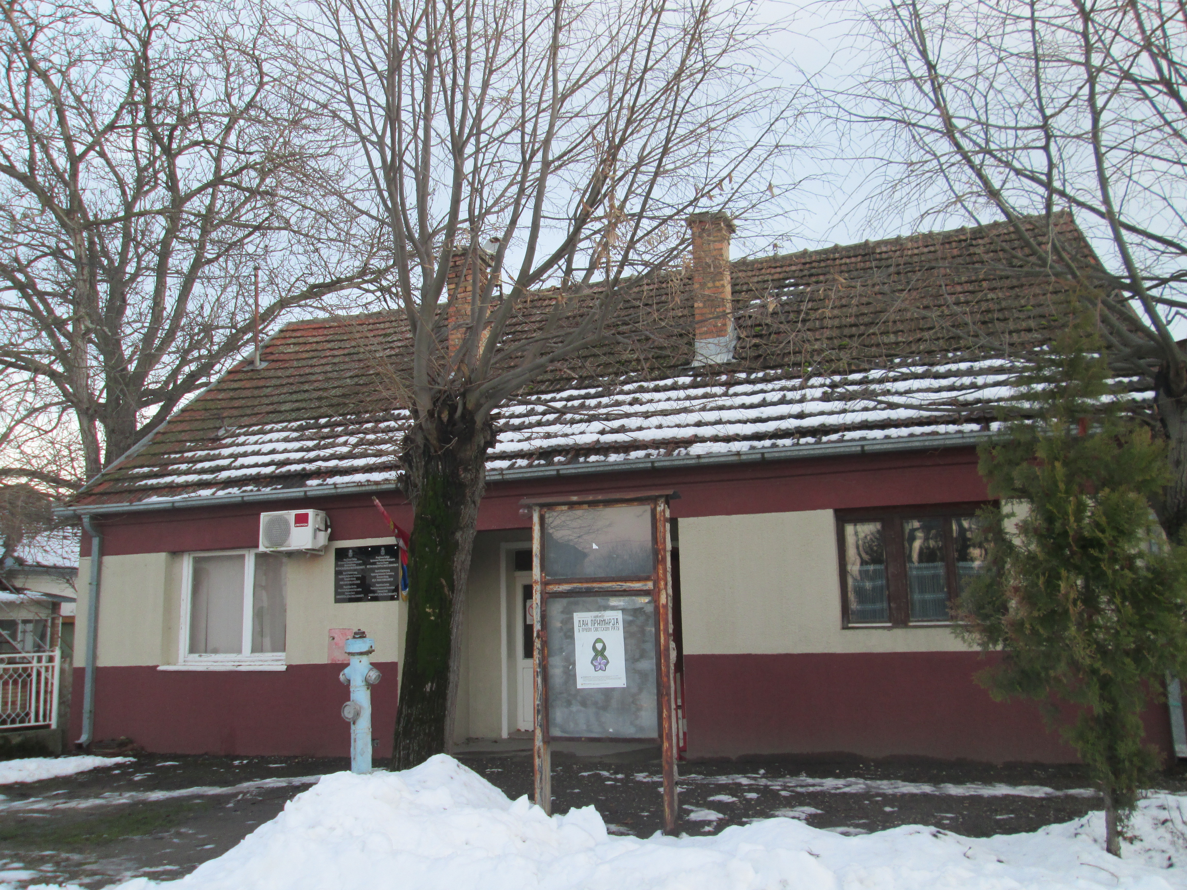 Malo Bavanište, Community Center Српски (ћирилица): Мало Баваниште, Месна заједница